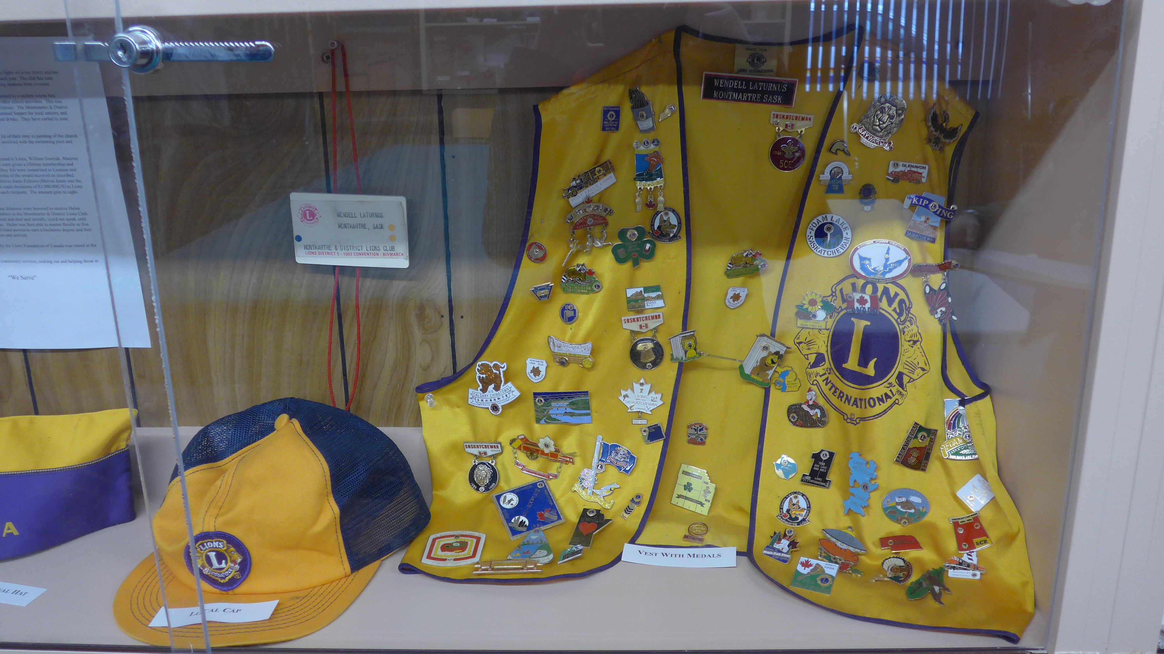 Exhibition at the Mini Museum